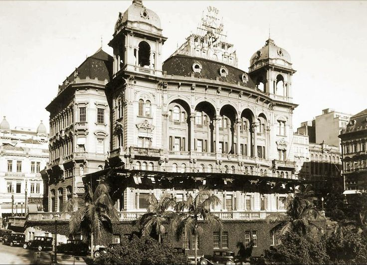 Palacete Anchieta, 1948